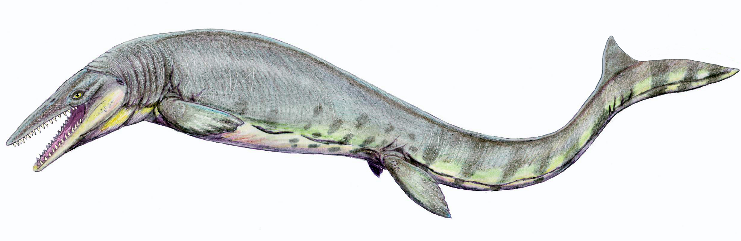 Tylosaurus pembinensis, aka "Bruce", from Campanian of Canada. Formerly Hainosaurus pembinensis